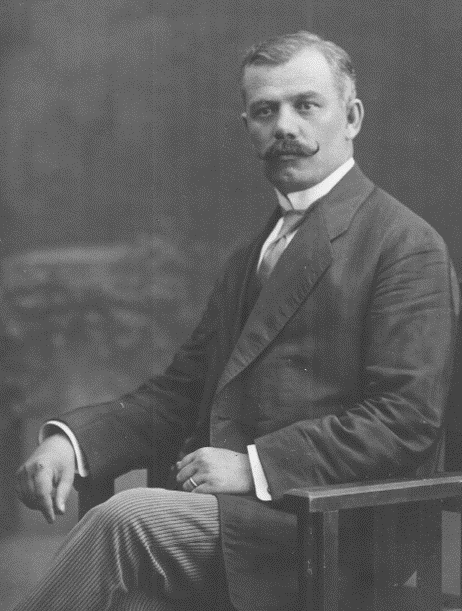 Photograph of Alexandru I. Lapedatu sitting